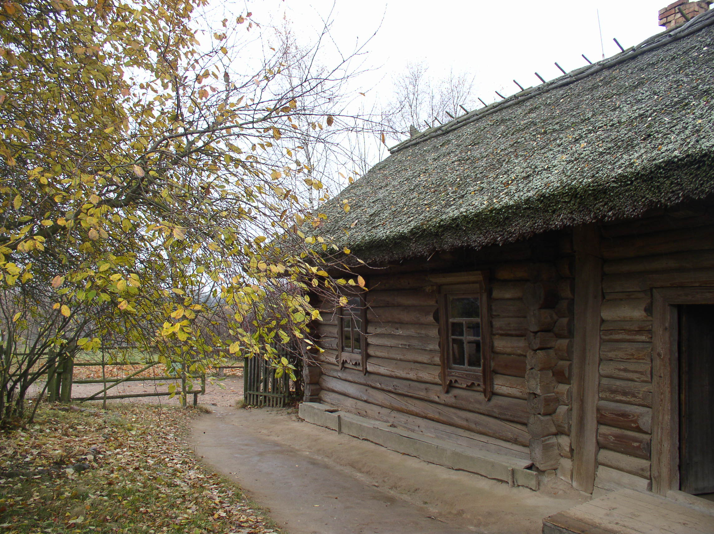 House from Central Belarus. State museum of folk architecture and life, Belarus.